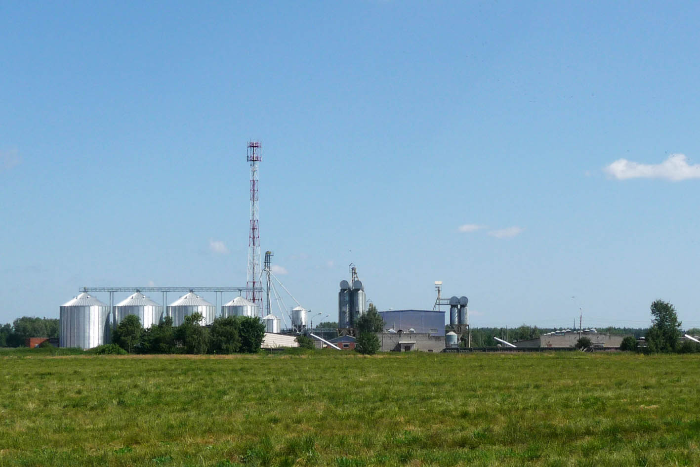 Orlovskoye is an agricultural enterprise created for the supply fresh products of Soviet cosmonauts living in Star City near Moscow. Now Orlovskoye belongs territorially to the village of Mizinovo, Shchyolkovo District, Moscow Oblast, Russia.